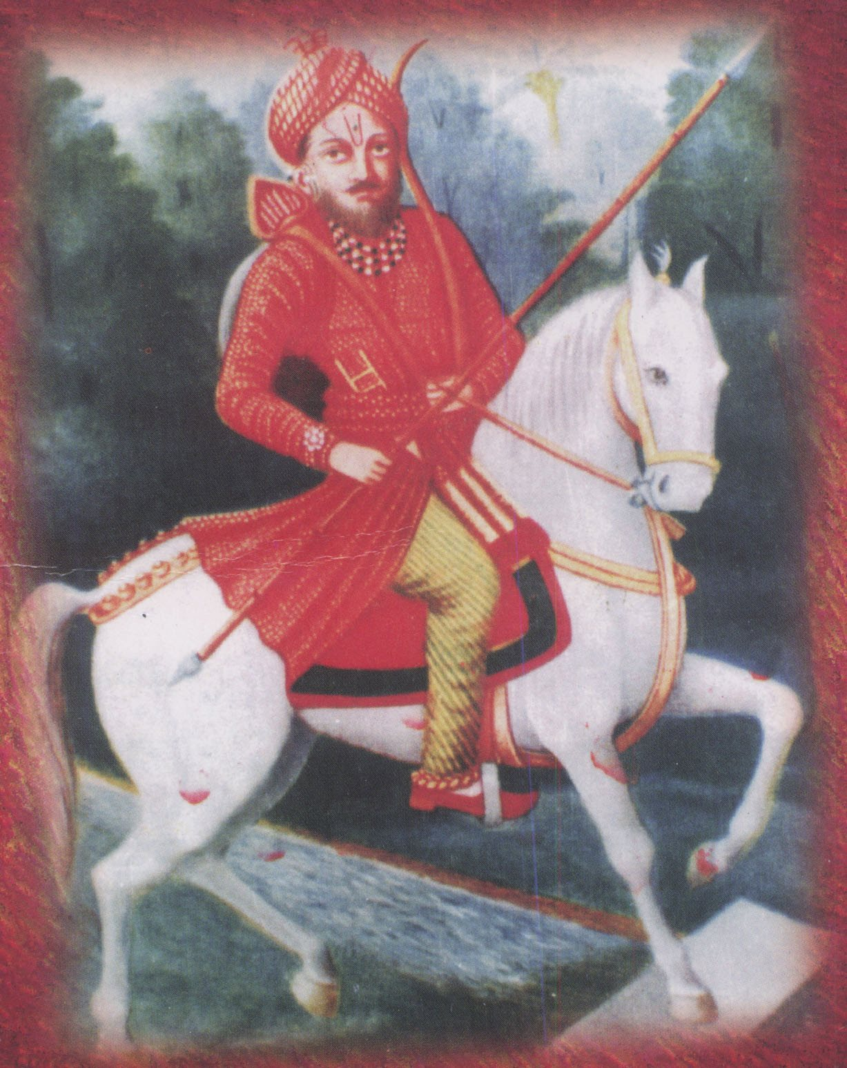 samarthshishya shri ranganath swami